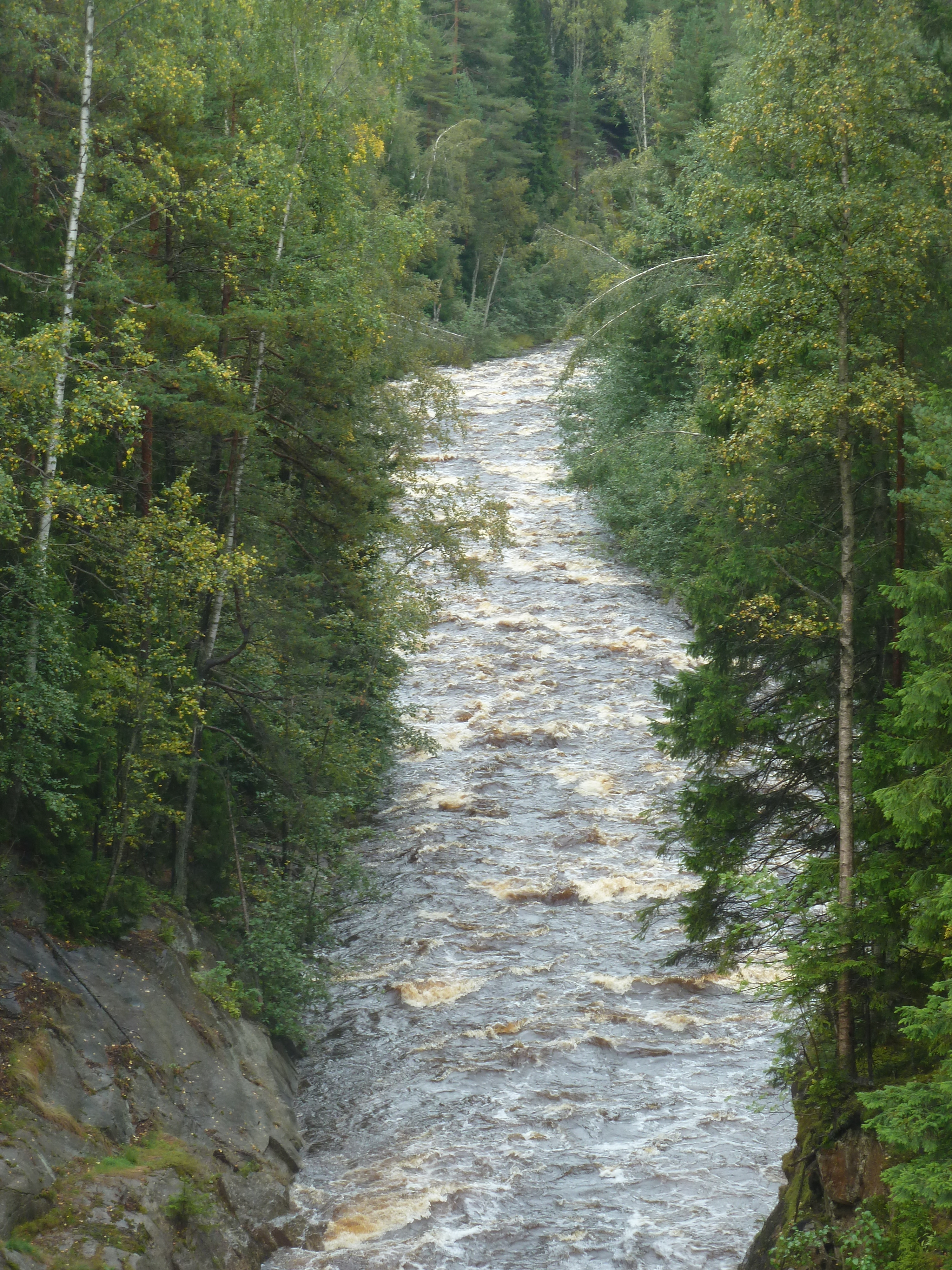 Utterån below Sågfallet, Ångermanland, Sweden